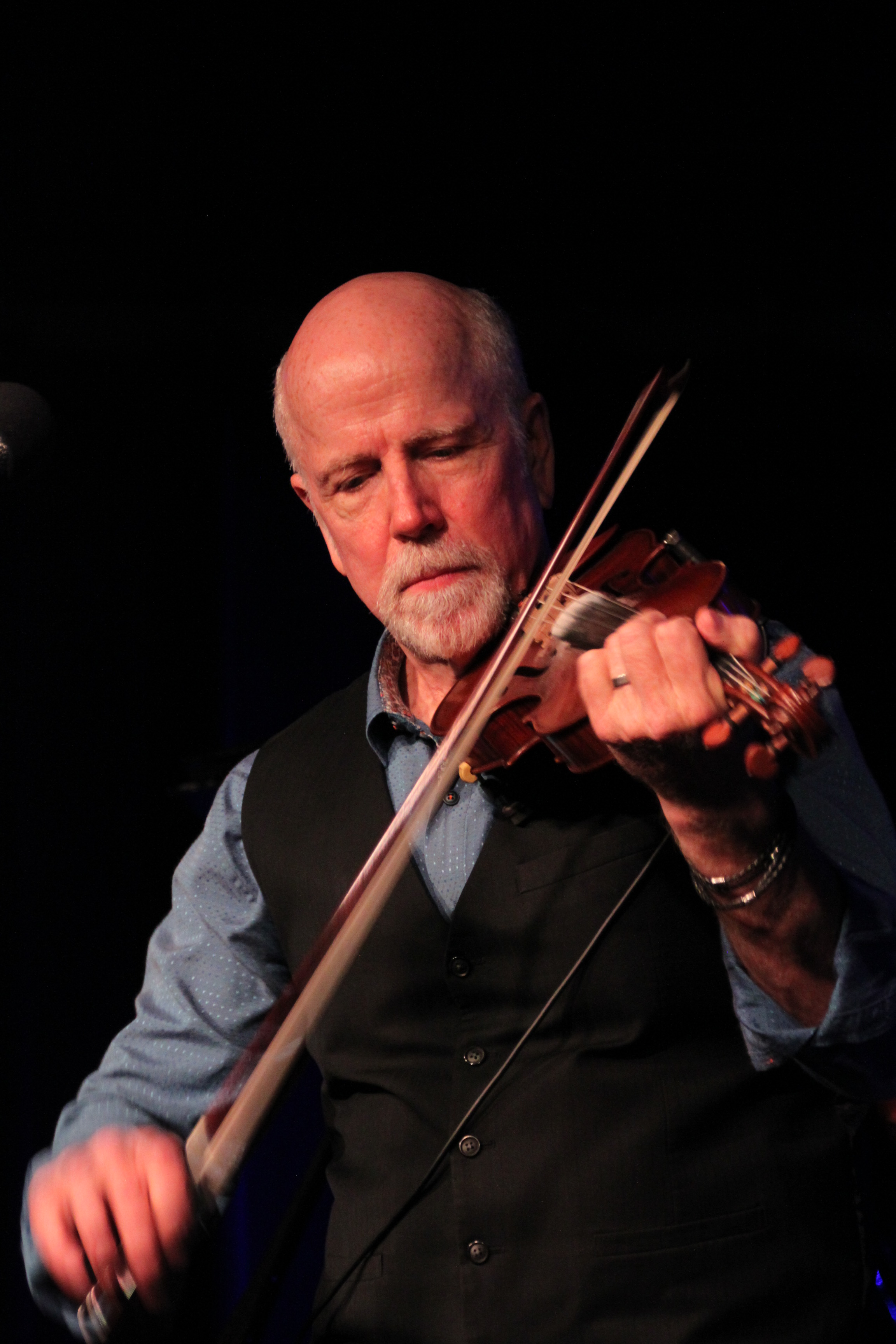 2017-04-21 John McCutcheon performs in Richmond VA.